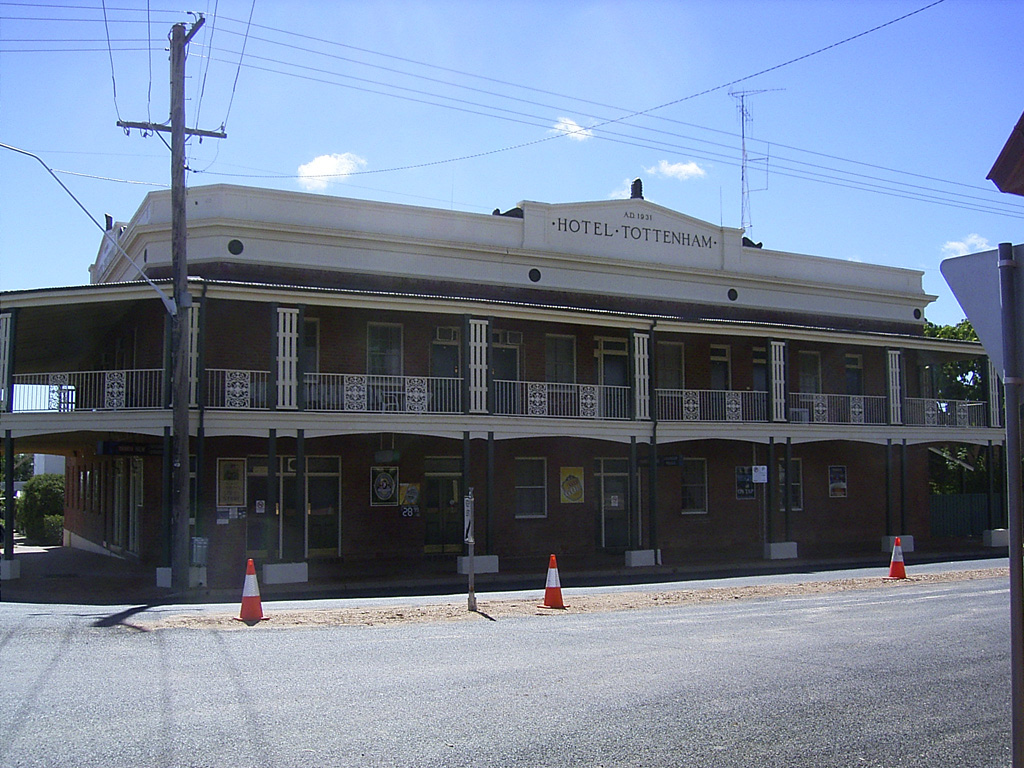 Tottenham Hotel, in the town of Tottenham, New South Wales.